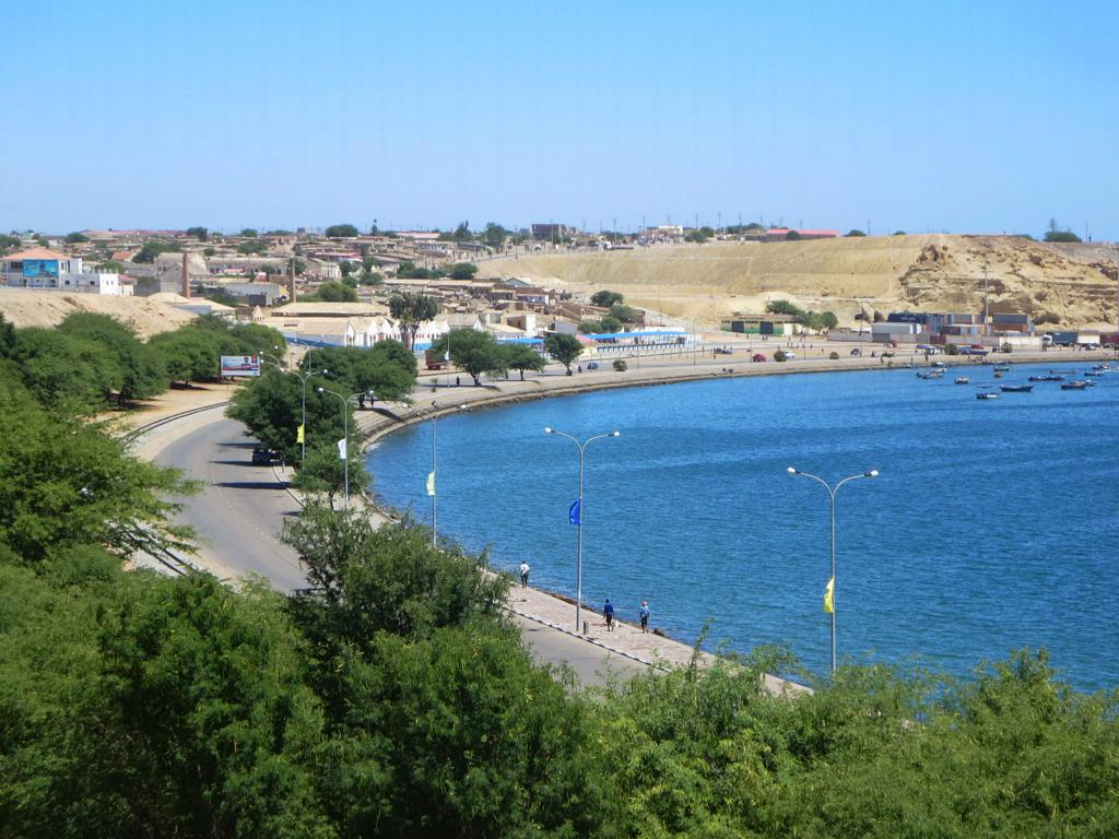 A scenic seaside avenue winds around the bay at Namibe, Angola.